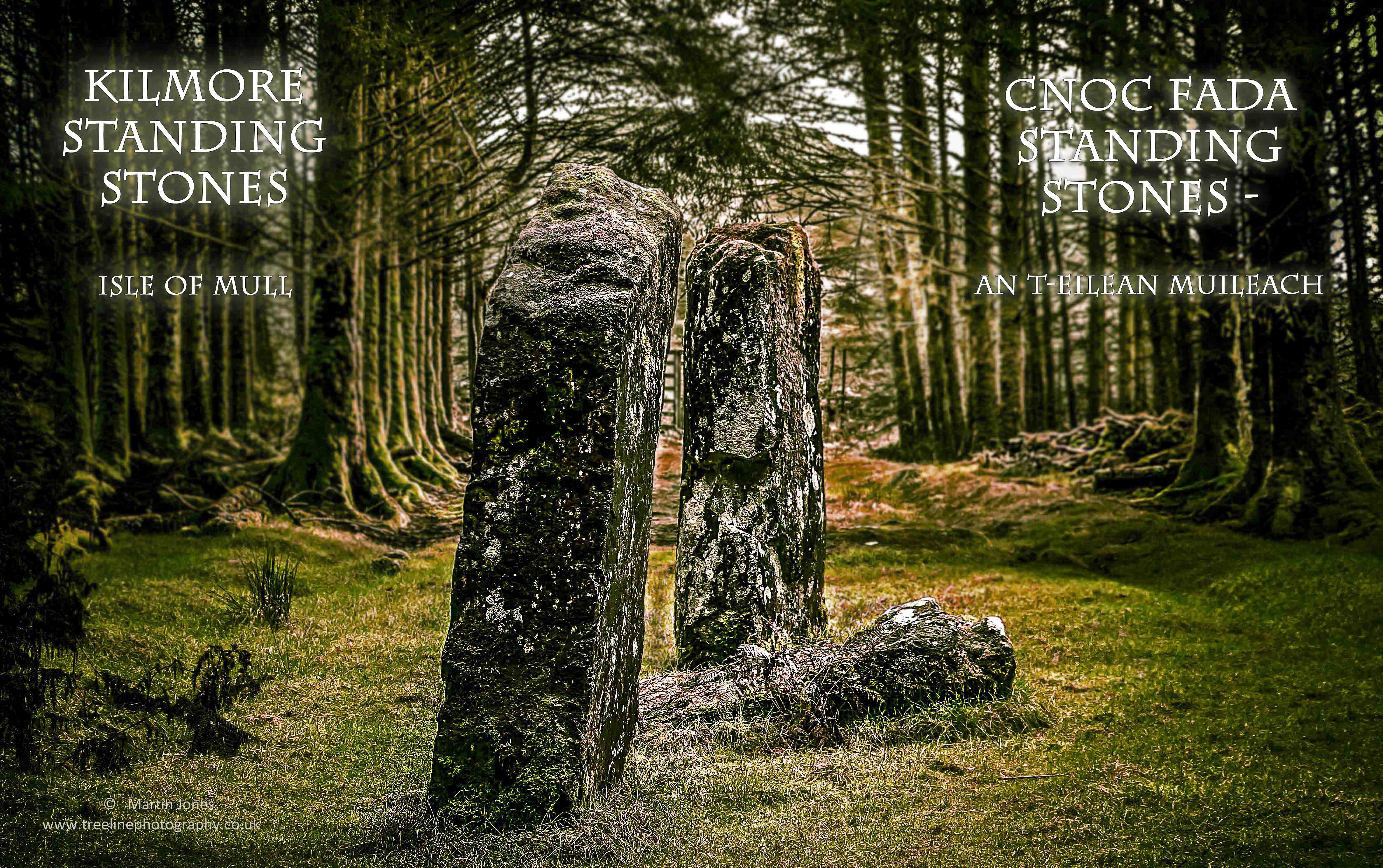 Kilmore Standing Stones at Dervaig, Isle of Mull.